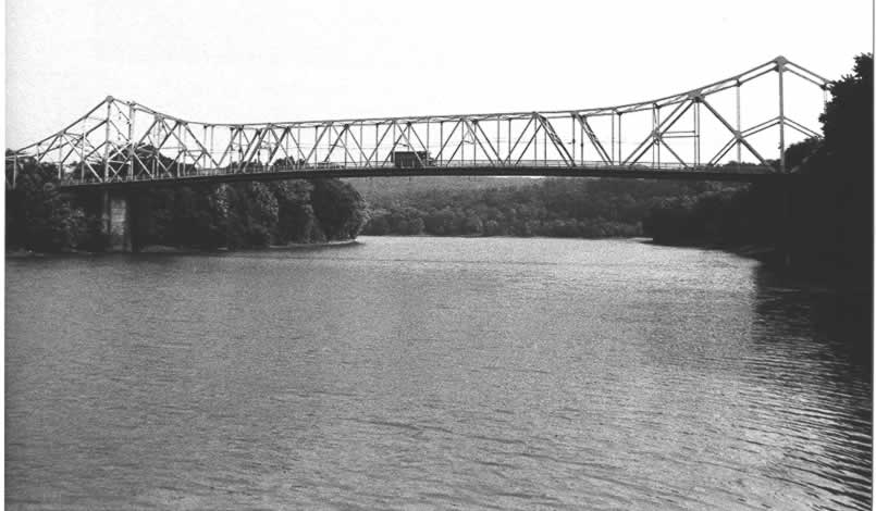 Side of the Albert Gallatin Memorial Bridge (Point Marion Bridge), which carried Pennsylvania Route 88 over the Monongahela River between Point Marion in Fayette County and Dunkard Township in Greene County in the southwestern corner of the U.S. state of Pennsylvania. Built in 1930, this Warren through truss bridge is listed on the National Register of Historic Places as "Marion Bridge". Demolished on November 16, 2009. [1]